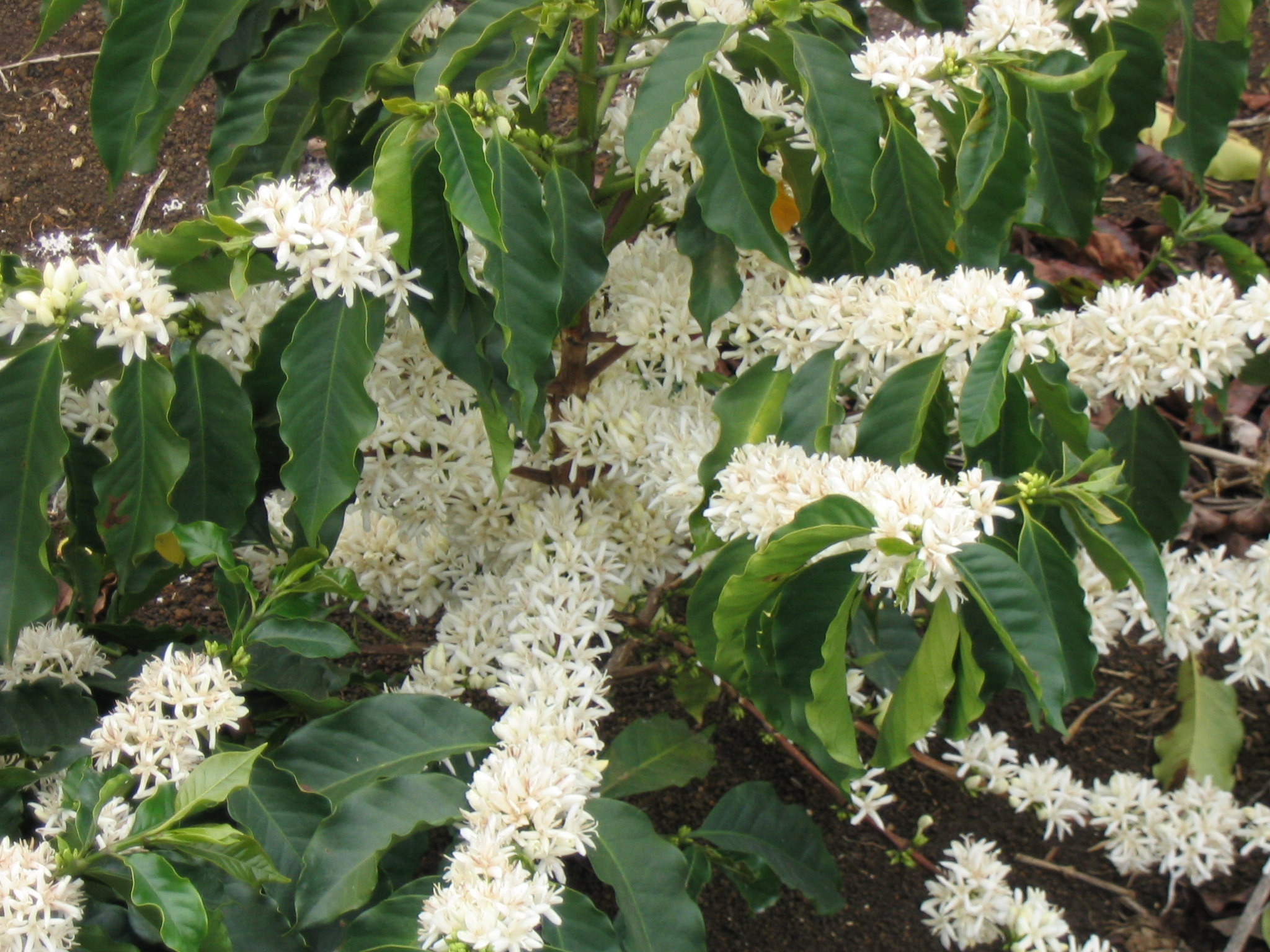 Coffee Flowers in Plantation of Brazil